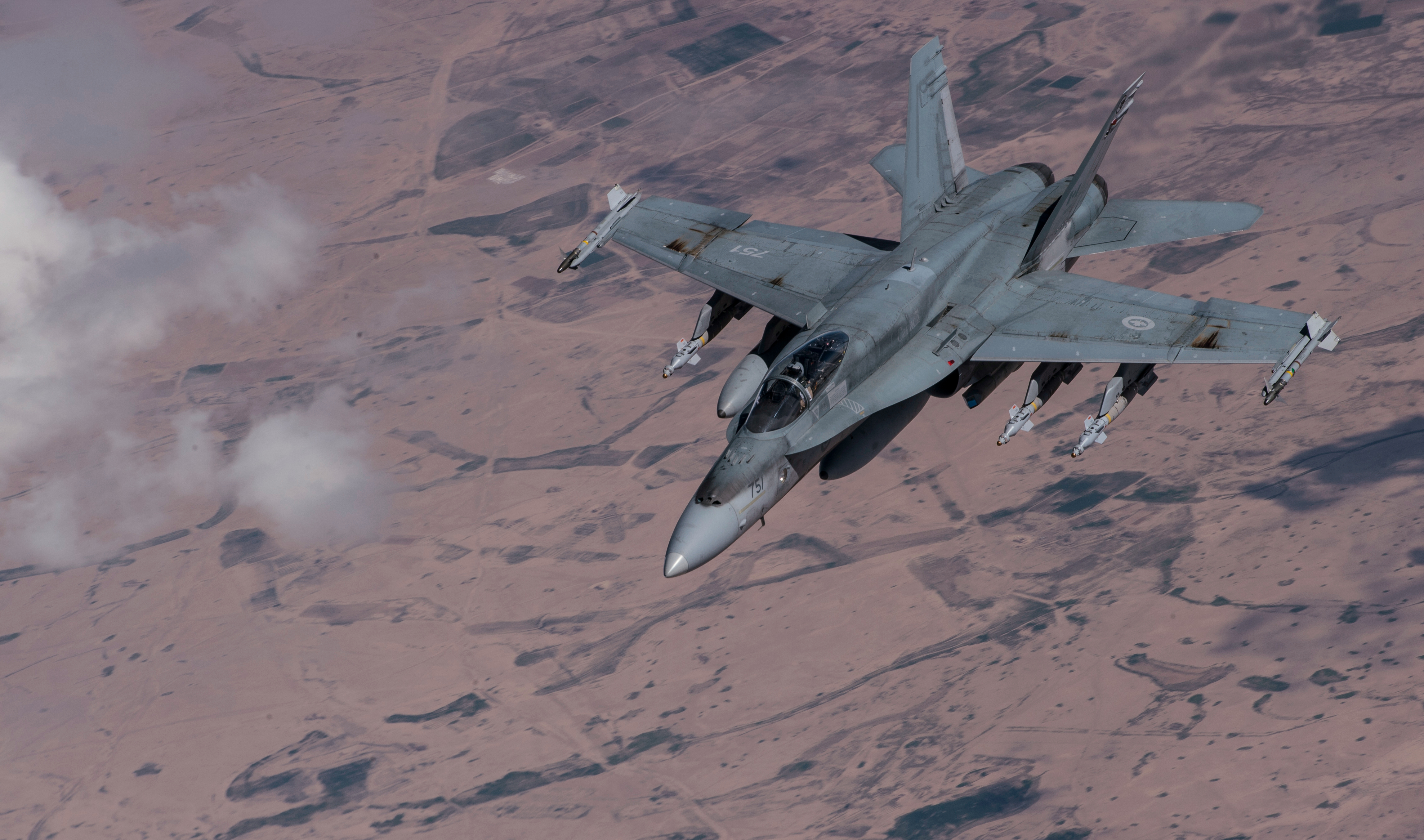 A Royal Canadian Air Force CF-188 Hornet breaks away from a U.S. Air Force KC-135 Stratotanker assigned to the 340th Expeditionary Air Refueling Squadron, after competing refueling, March 4, 2015, over Iraq. The Hornets are on a mission to strike Da'esh targets in support of Operation Inherent Resolve. (U.S. Air Force photo by Staff Sgt. Perry Aston/RELEASED)